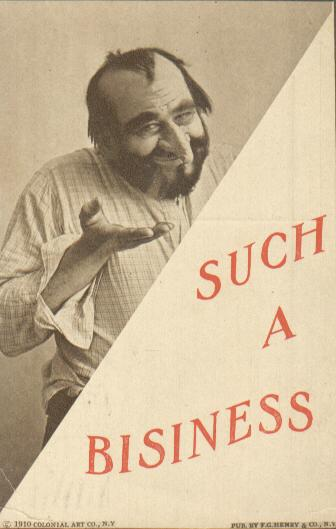 American anti-Semitic postcard printed in New York.